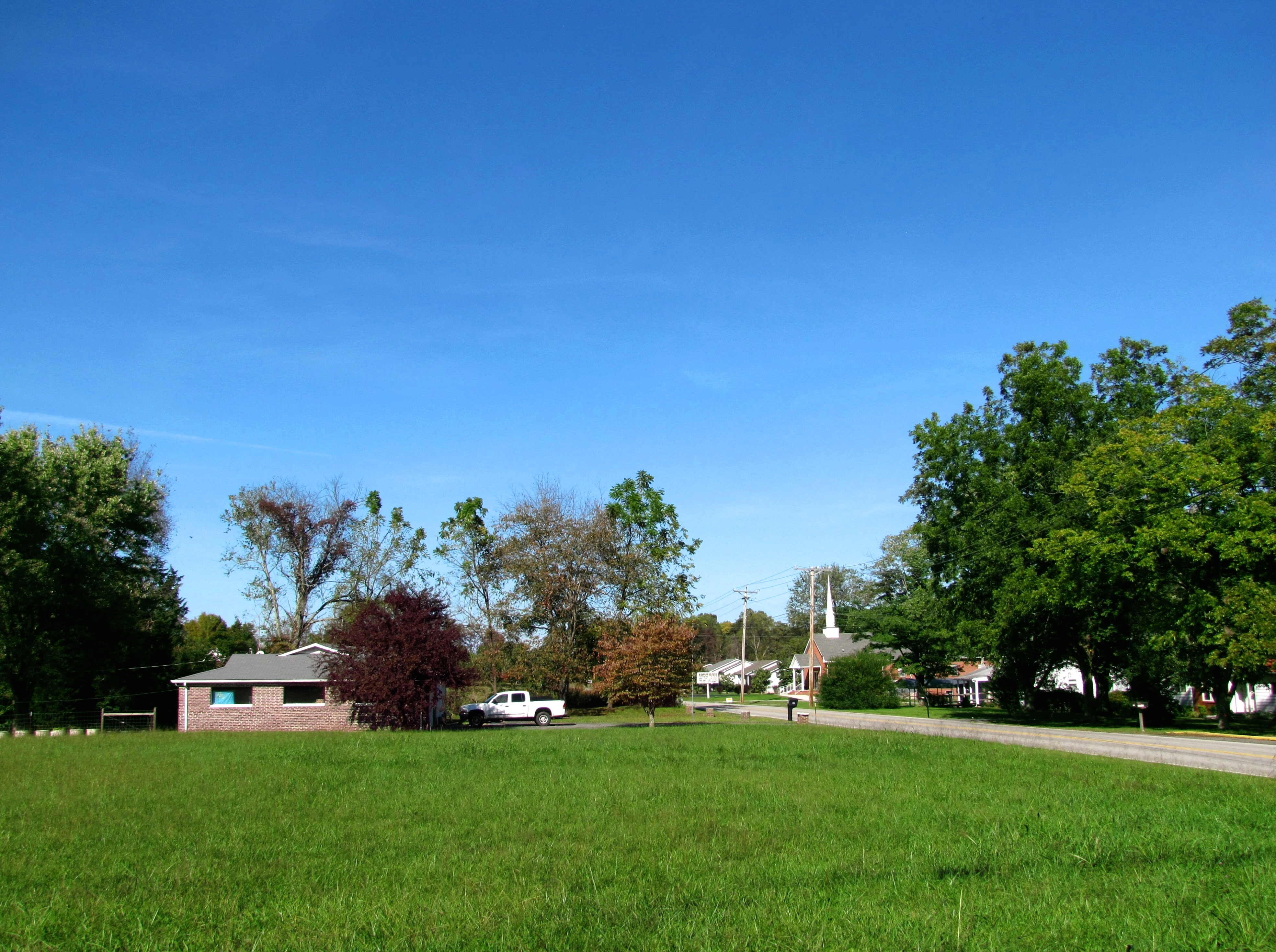 Houses and buildings along State Route 136 in Bangham, Tennessee, United States.